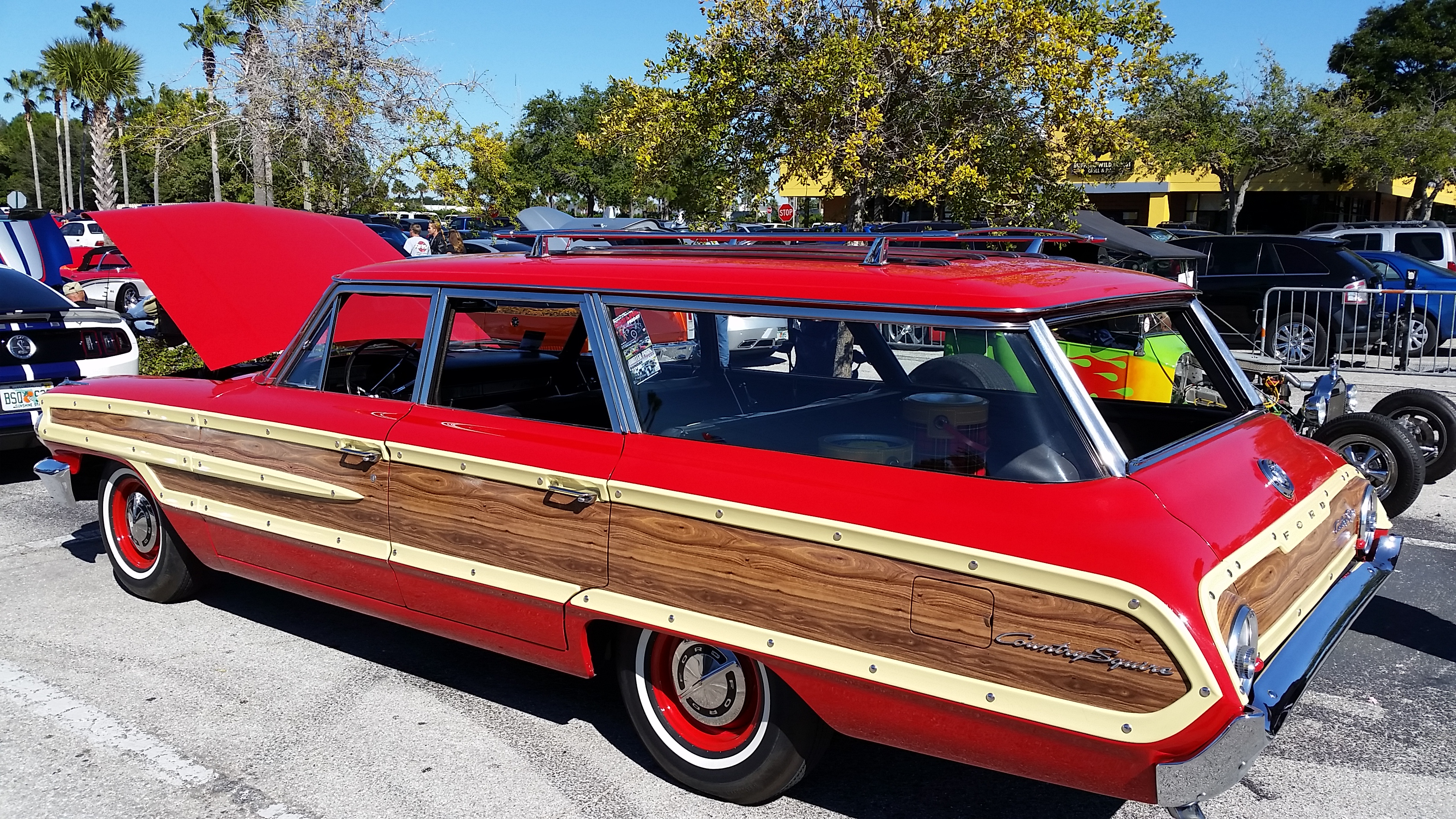 Mason Dixon Christmas Wish Fund Car Show 2014 Bright House Field, 601 N Old Coachman Rd., Clearwater, Florida 33765 US